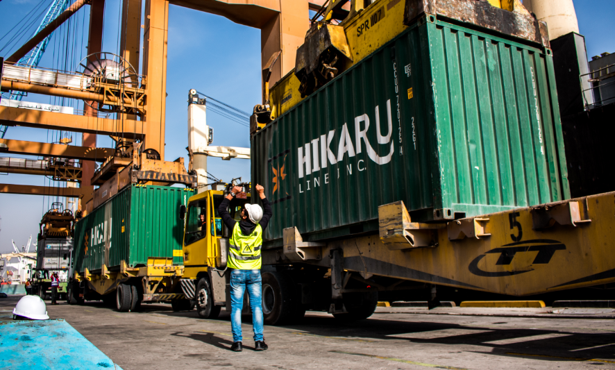 Iraq Container Terminal